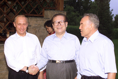 ALMATY. President Vladimir Putin, Chinese President Jiang Zemin and Kazakh President Nursultan Nazarbayev.